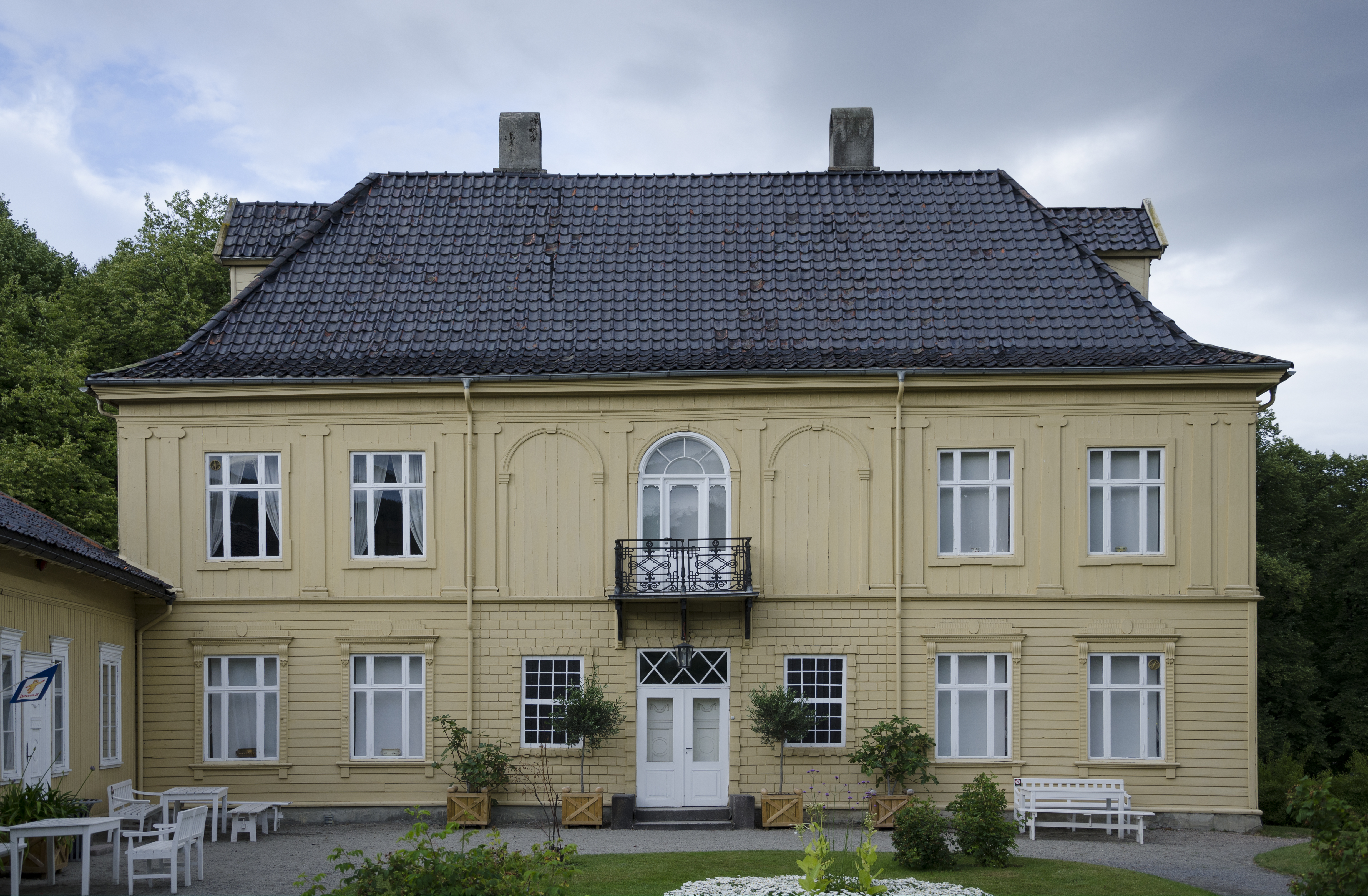 Gulskogen (eng. Yellow forest) Manor, bought by Peter Nicolai Arbo and Anne Cathrine Collett in 1793 and turned into a manorial estate in the following years. It was made a museum in 1963. The house, its contents and the park surrounding the estate are intact from the 1800s.